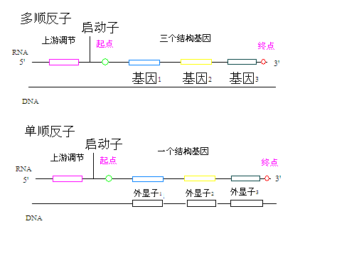 poly/monocistronische Transkription